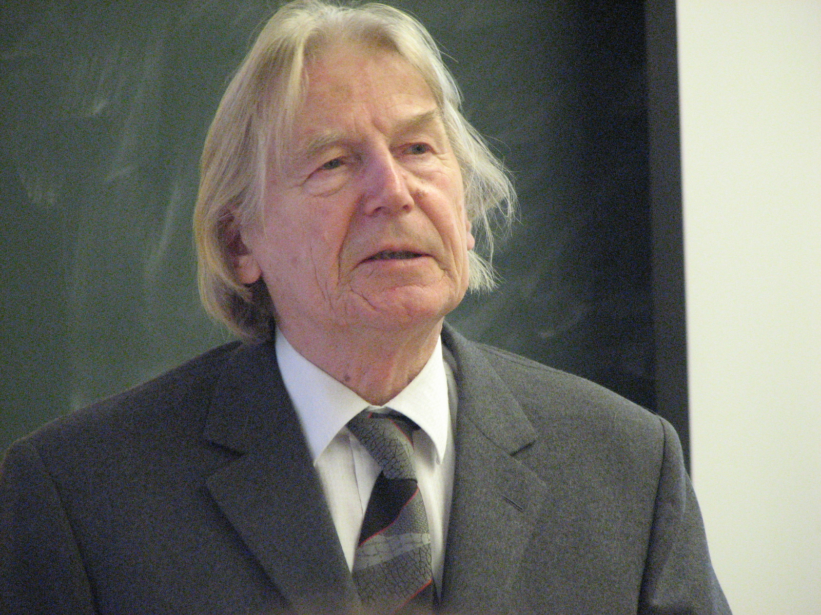 Jüri Raudsepp performing in Institute of Theology of Estonian Evangelical Lutheran Church in November 2010.